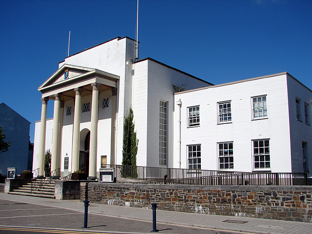 Aberystwyth Town Hall In Queens Square. The original town hall on this site (the 3rd in the town) was built in 1857. It was burned down and rebuilt in 1957. Ceredigion County Council has a webcam mounted on the town hall looking along Portland Street